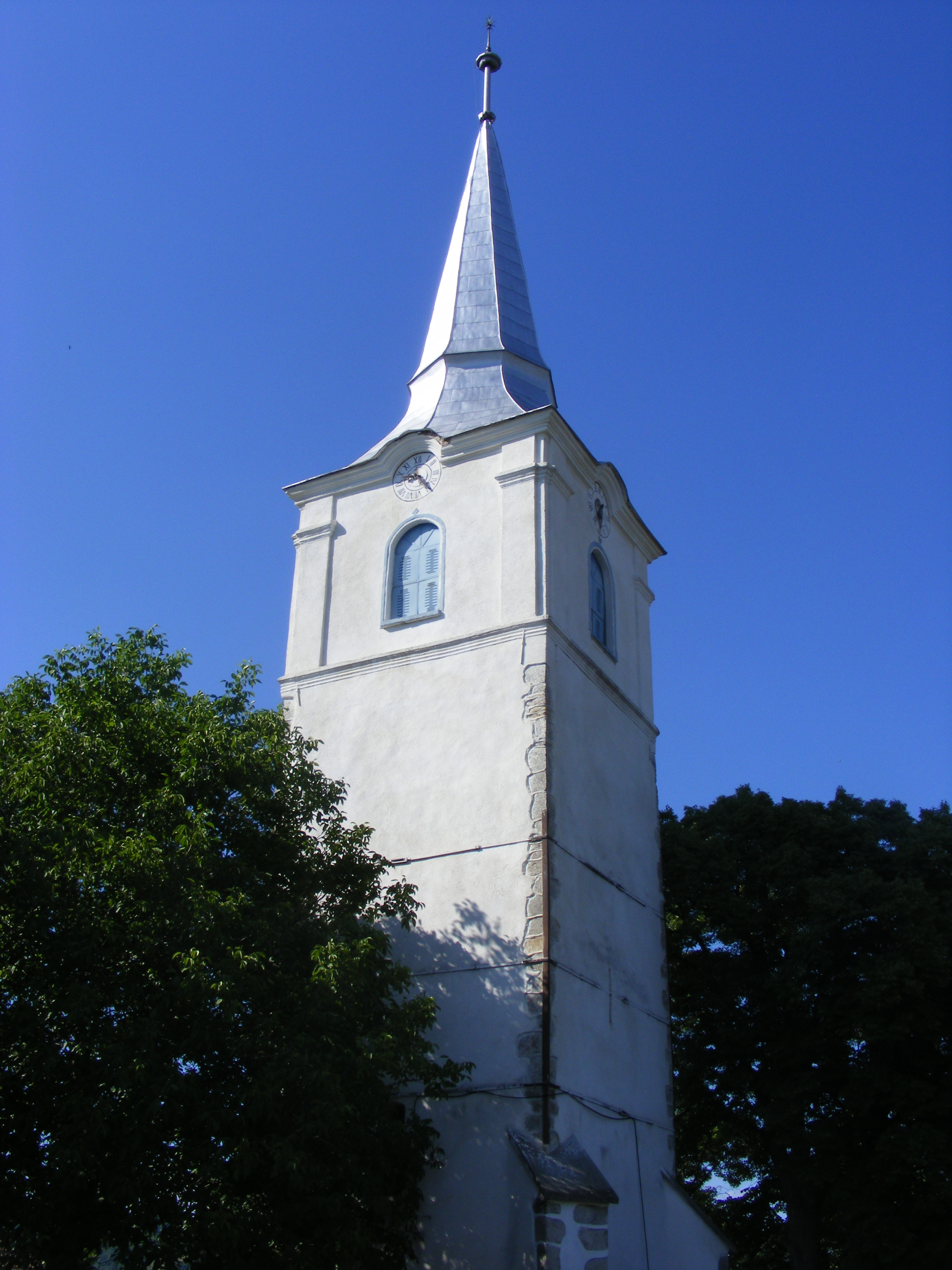 The tower of the unitarian church in Homoródszentmárton (Mărtiniş).